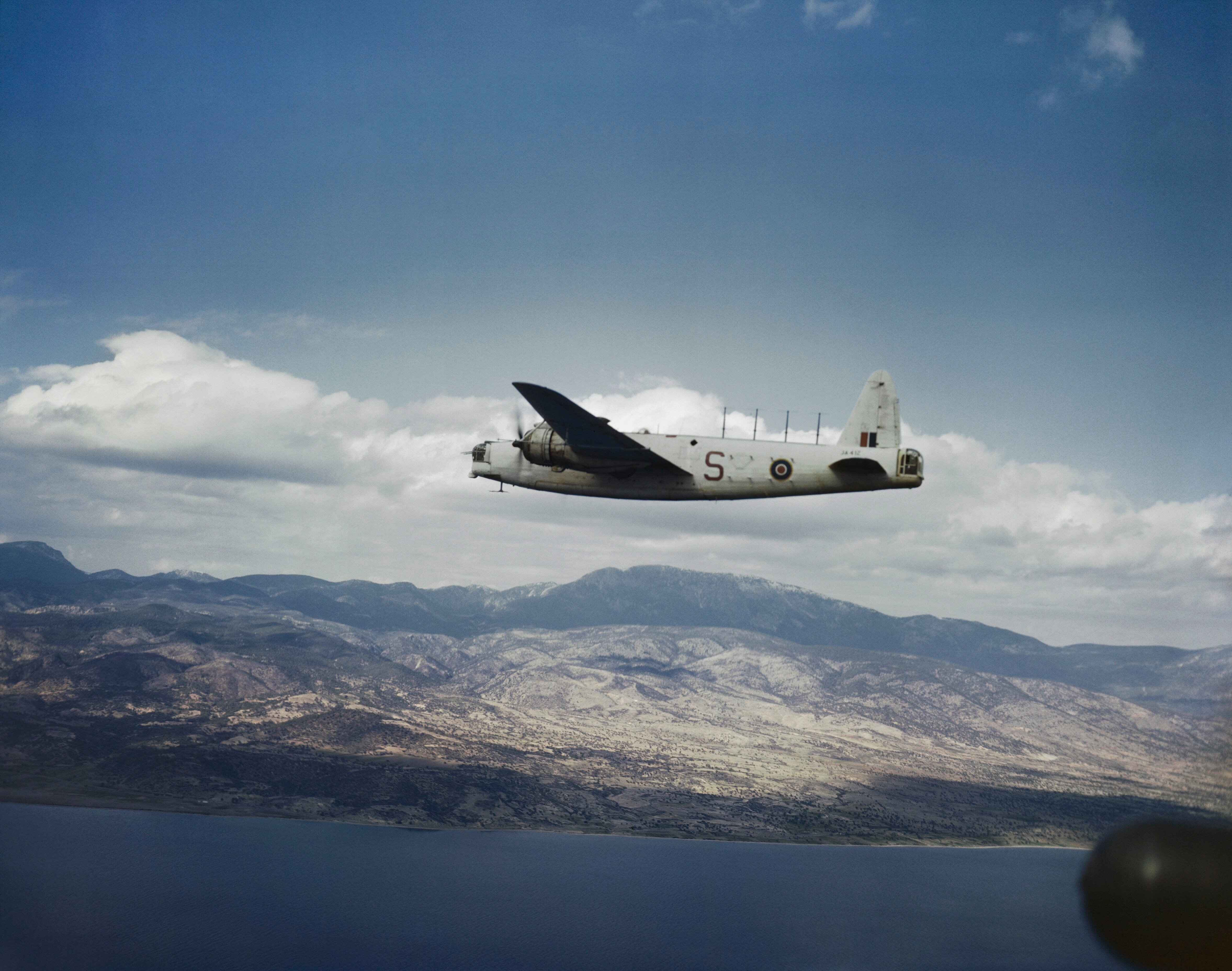 A Vickers Wellington GR.XII (serial JA412, "S") of No. 221 Squadron, Royal Air Force Coastal Command, operating from Hassani, near Athens (Greece), on its way to drop supplies including newspapers, leaflets and clothing to isolated Greek villages cut off by the enemy's demolition of bridges. This plane operated as part of a Mediterranean coastal organisation with a role much like the Coastal Command. The antenna of the plane's sea-search radar are visible.